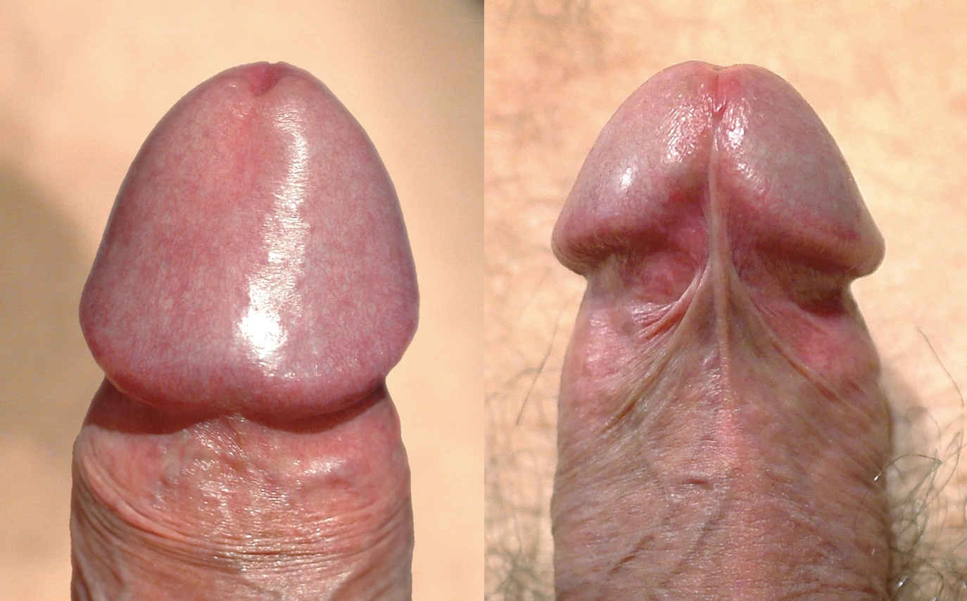 Corona of the glans penis. Southern-European male, 30 years, average penis size (penis with foreskin, erect). Read my comments here: 123GLGL